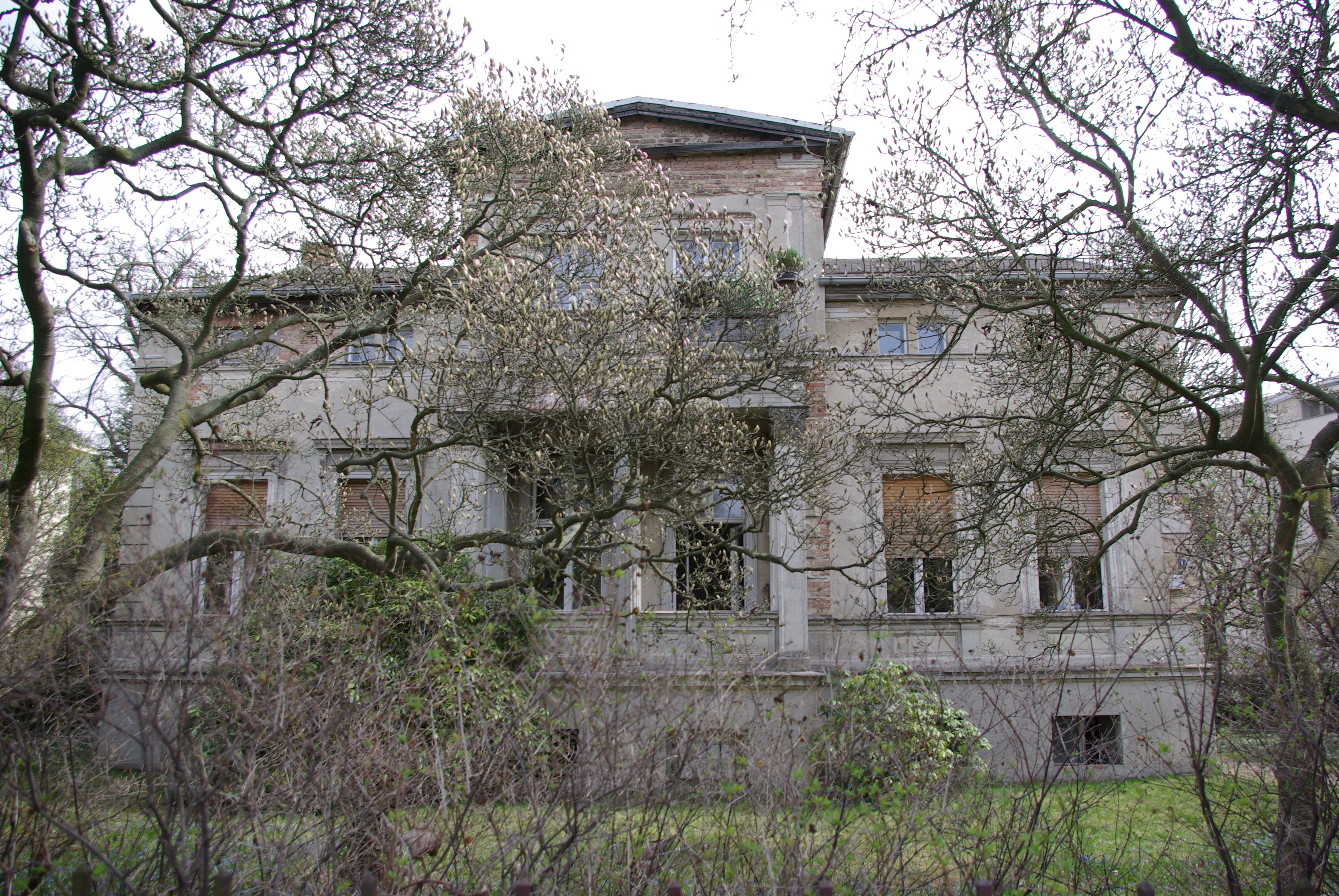 Potsdam in Germany. Villa Hasselkampf Puschkinallee 1, 1871, is a listed building.